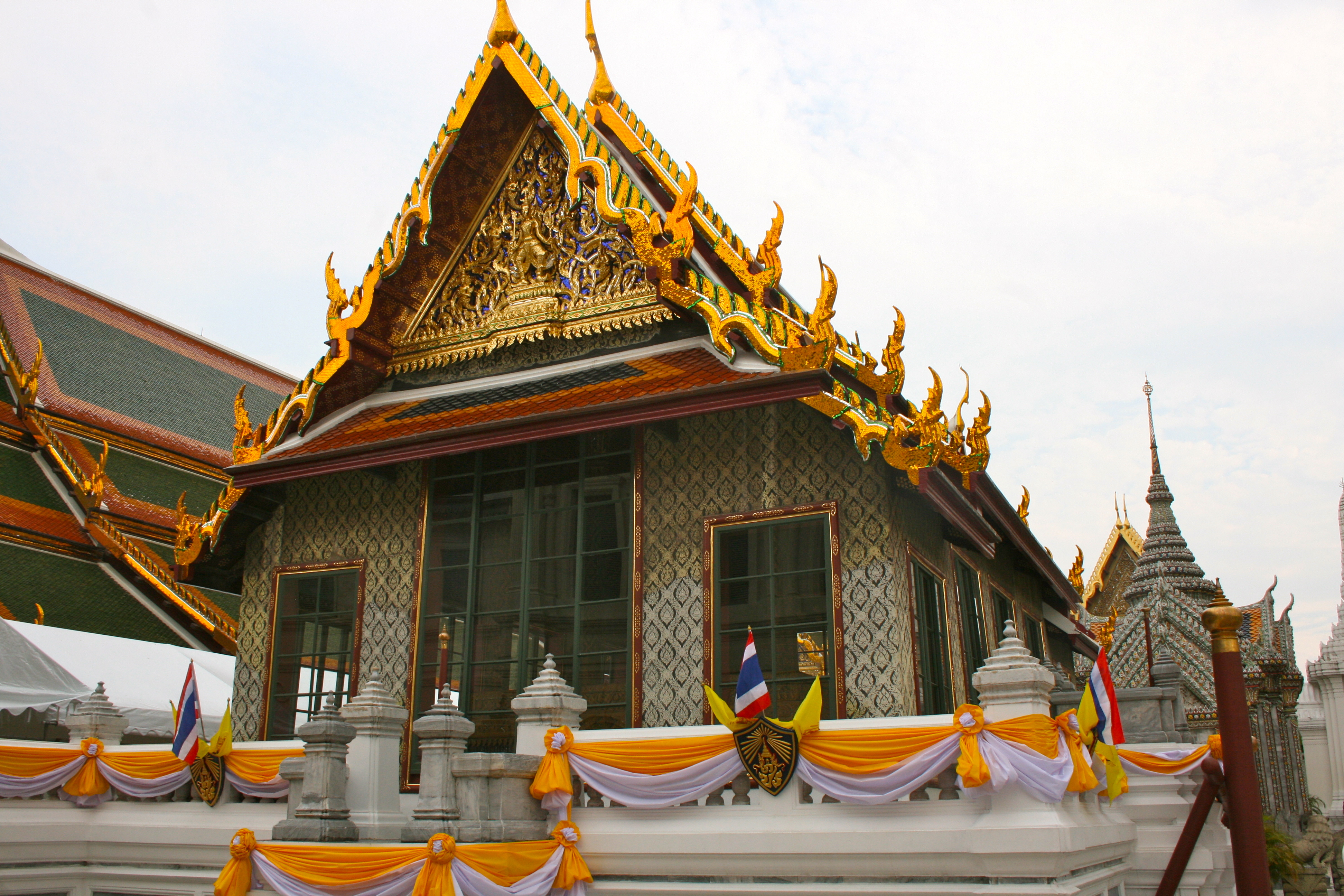 Dusidaphirom PavilionThe Garlands are for The KIngs 84th birthday on 5th December 2012. Every 12th birthday in Thailand is a special birthday like 50,60,70